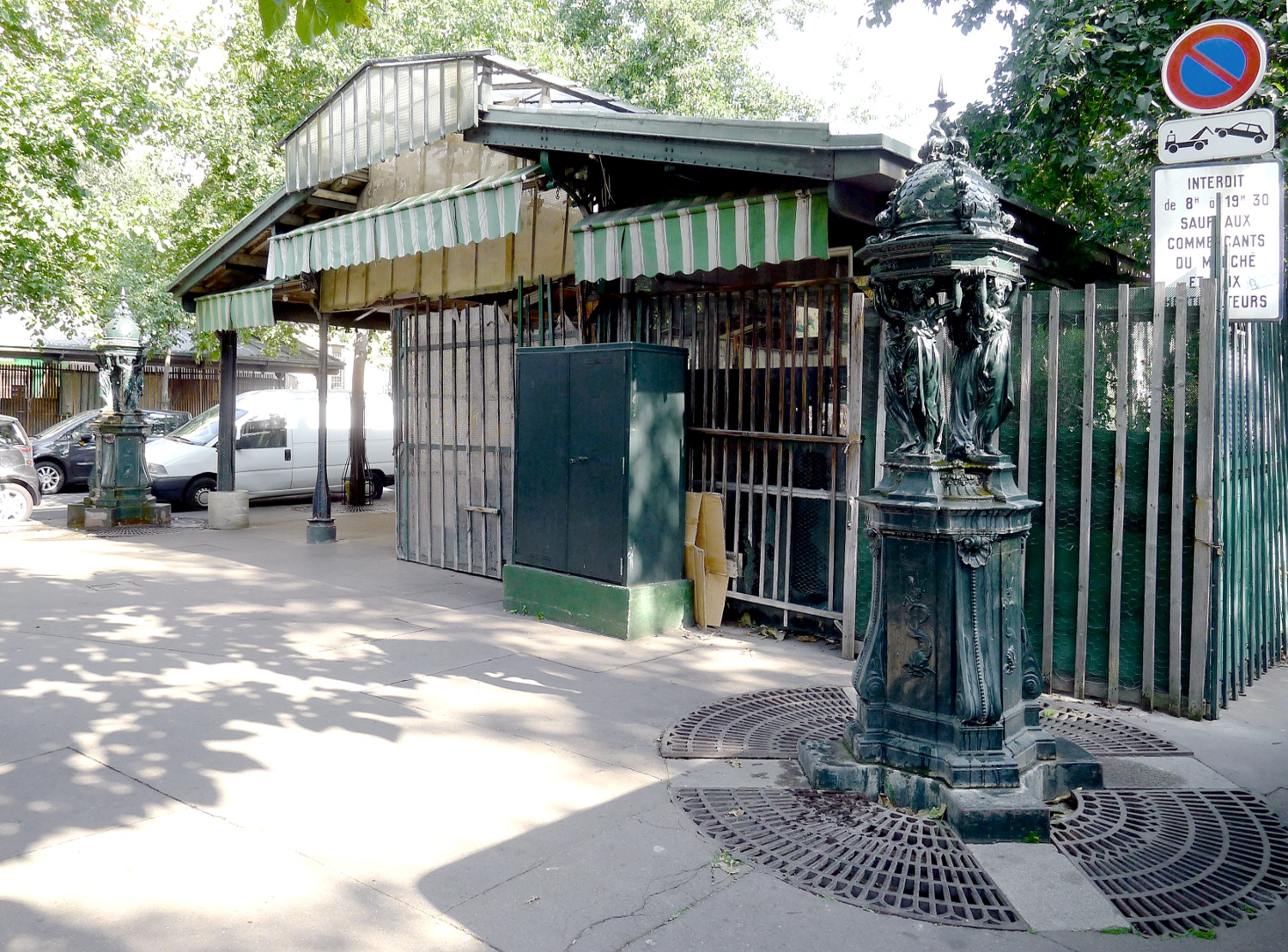 Wallace fountains (Louis-Lépine place) - Paris